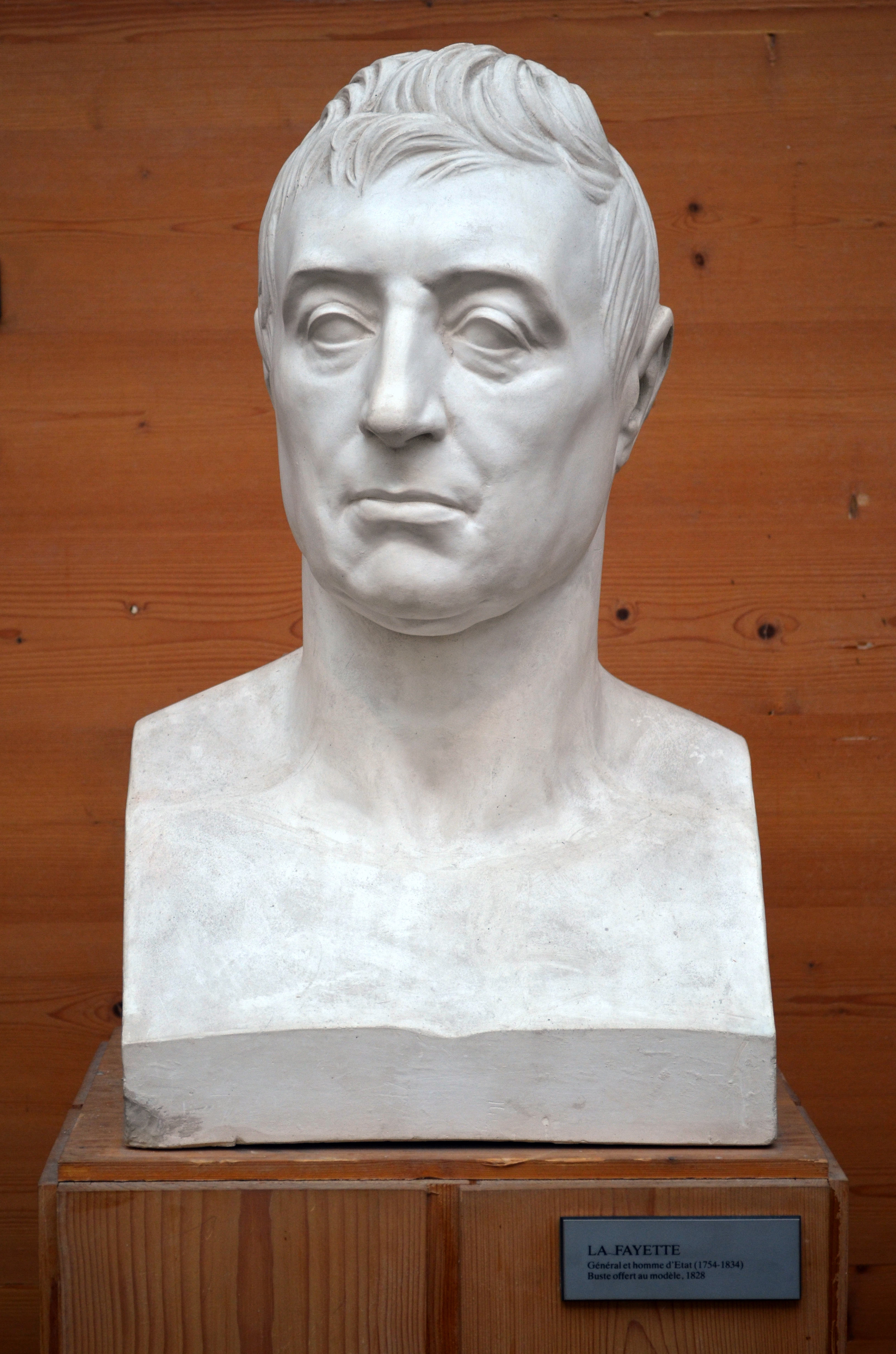 Gilbert du Motier, marquis de Lafayette's bust by french sculptor David d'Angers (1829). Exhibited in David d'Angers gallery, Angers, France